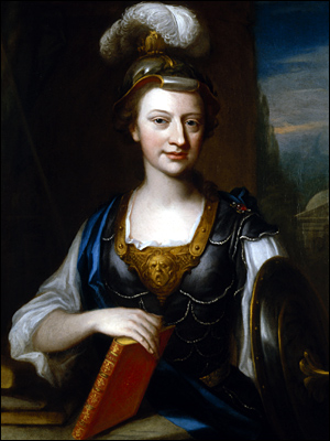 Elizabeth Carter as Minerva